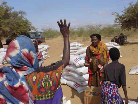 distribution of U.S. food aid in Beledweyne, Somalia